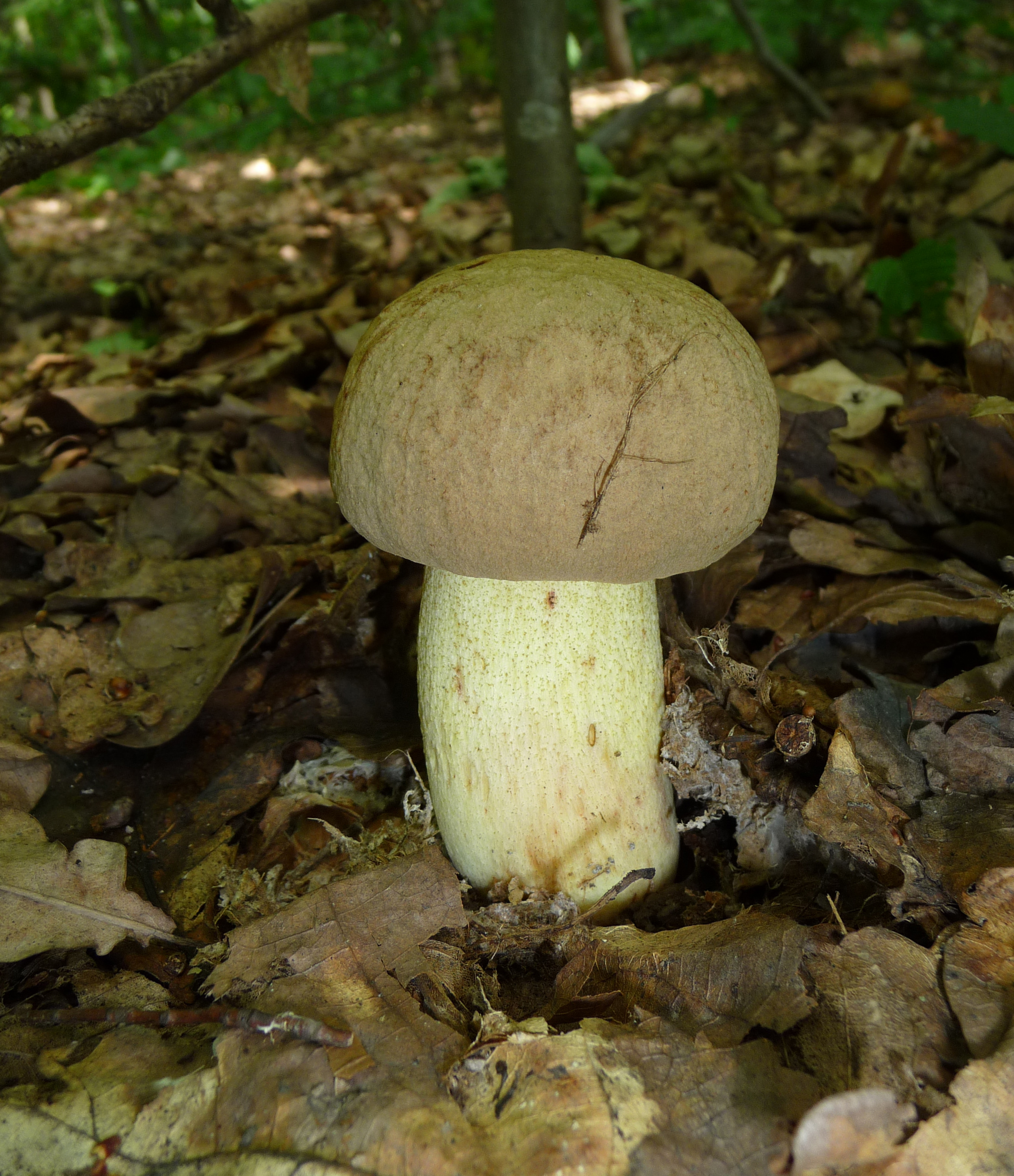 Iodine bolete